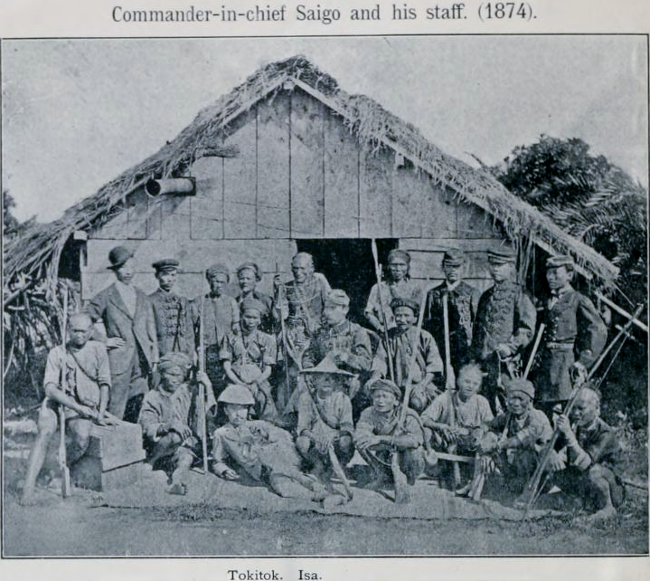 Commander-in-chief Saigo pictured with leaders of Seqalu (Native tribe). Tokitok. Isa. S. Midzuno. (Marquis) Saigo. Illustration on p. 127 of Davidson, James W. (1903) The Island of Formosa, Past and Present : history, people, resources, and commercial prospects : tea, camphor, sugar, gold, coal, sulphur, economical plants, and other productions, London and New York: Macmillan . 中文（台灣）: 1874年，日本以琉球船民遇害，出兵攻打台灣番地，史稱牡丹社事件。石門戰役後，日軍指揮官西鄉從道（Saigo）與原住民頭目卓杞篤、一色會面。圖中坐者為西鄉、右坐為一色、左坐為卓杞篤。國立臺灣歷史博物館